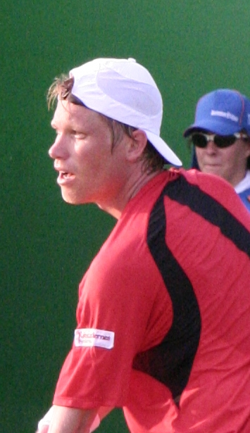 Kristian Pless at their first-round match of the 2007 Australian Open.